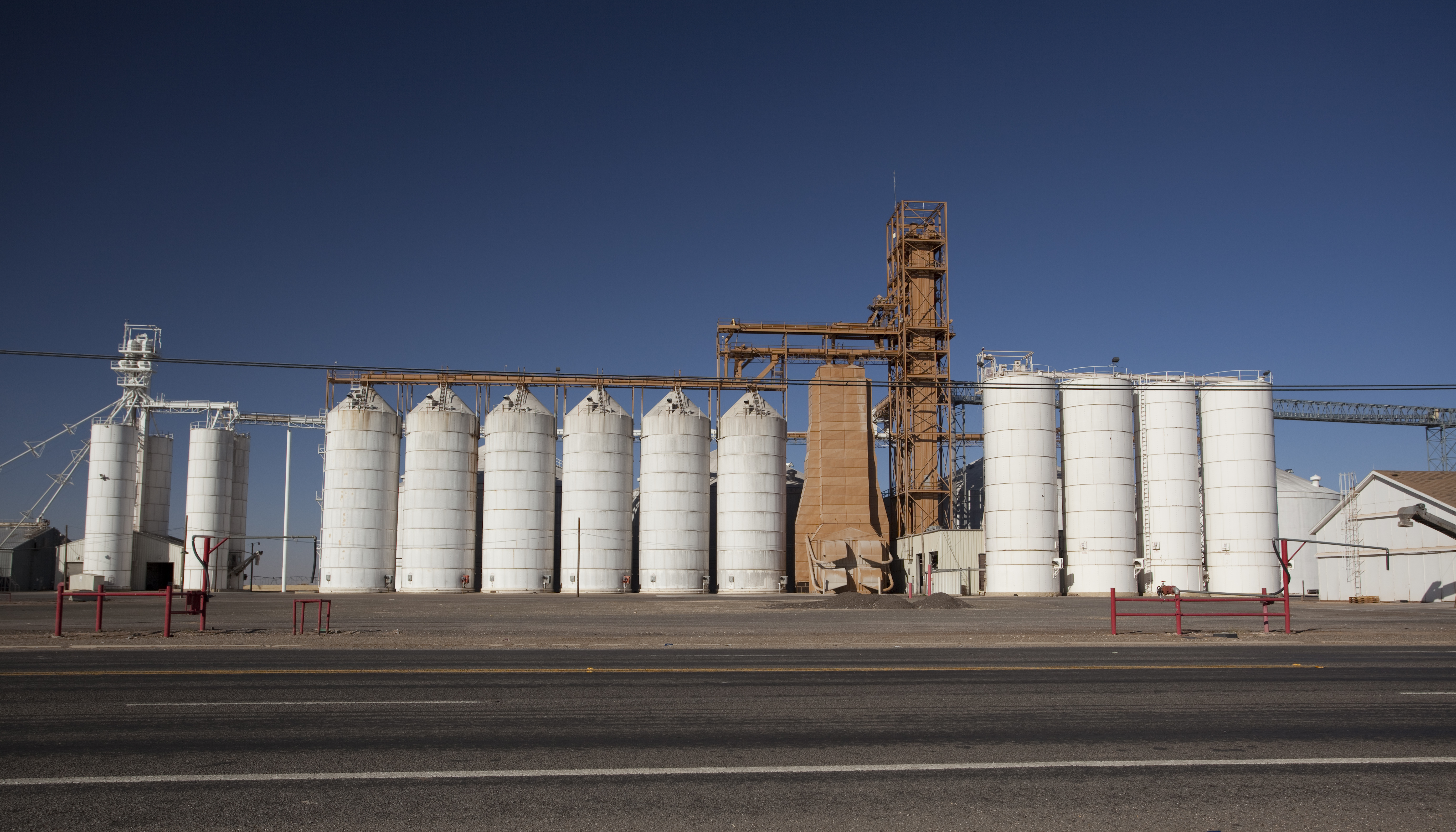 Row of grain silos in Olton, Texas.